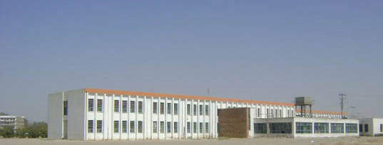 Teachers Training Institute of Helmand Province in Lashkar Gah, Afghanistan